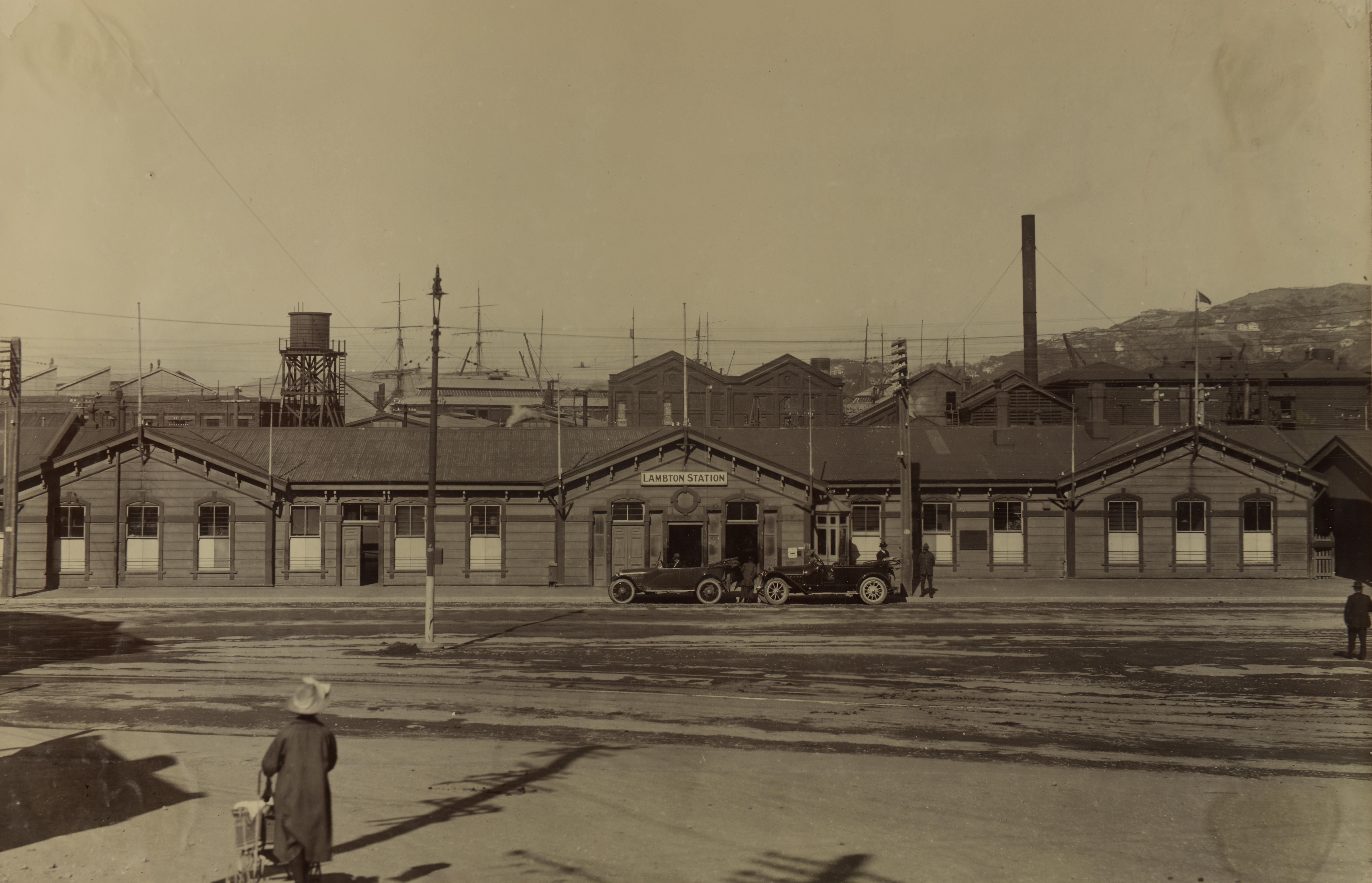 Archives Reference: ABIN W3337 Box 250